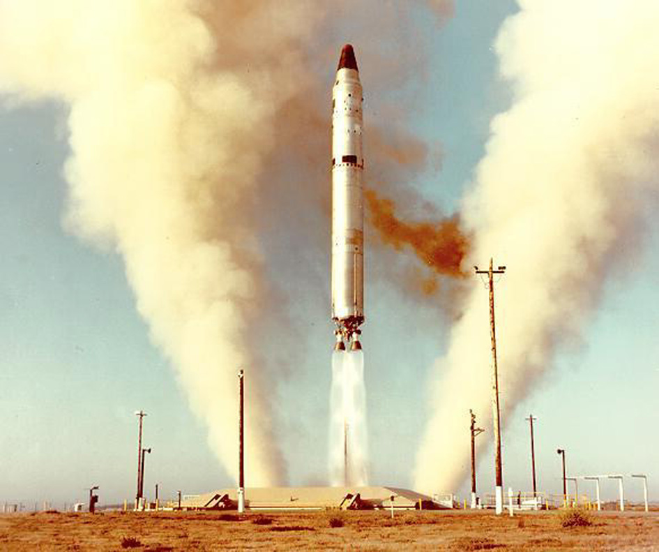 Titan-II ICBM silo test launch from Vandenberg Air Force Base